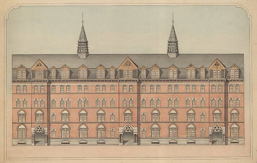 Elevation rendering of Farnam Hall at Yale College by architect Russell Sturgis. Sturgis's firm was located at 57 Broadway in New York City. Image courtesy of the Yale University Manuscripts & Archives Digital Images Database, Yale University, New Haven, Connecticut. Retouched by MarmadukePercy.